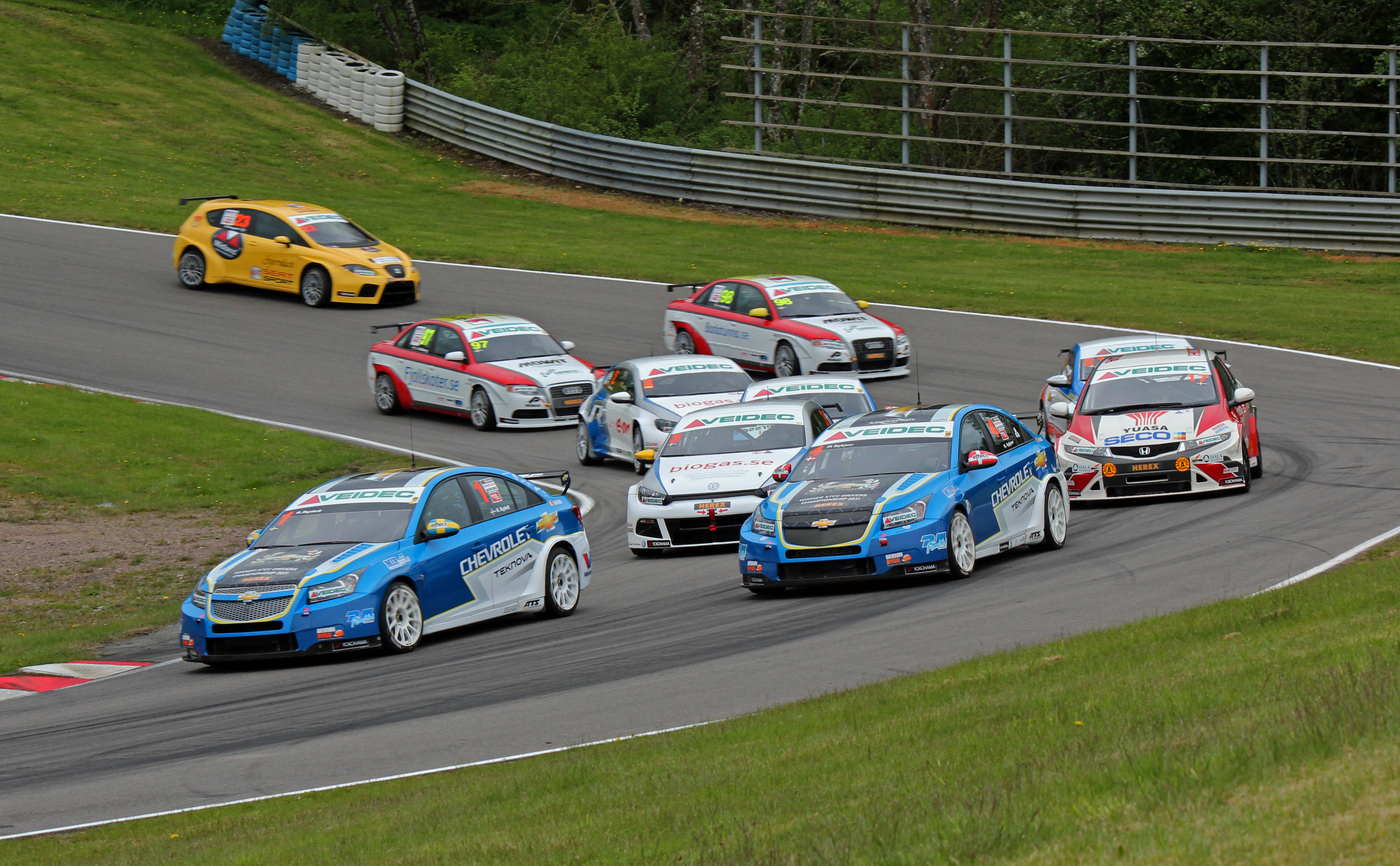 The cars ready for the rolling start in the first race at Ring Knutstorp in the 2012 Scandinavian Touring Car Championship (STCC).